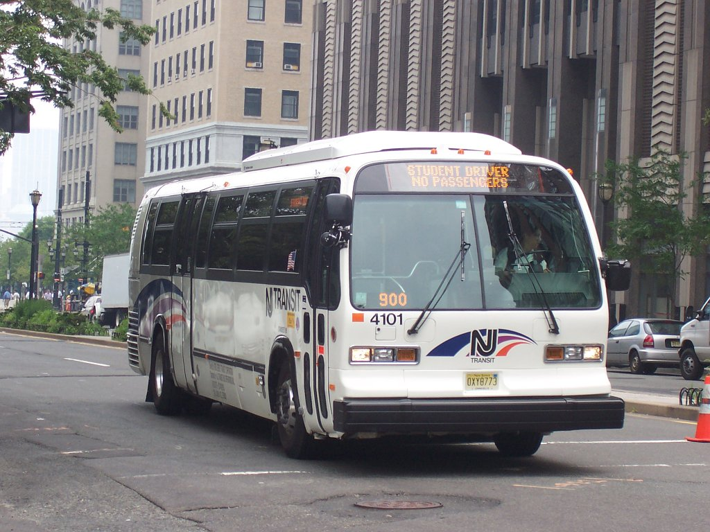 Millennium Transit Services RTS Legend demo coach #4101 in Jersey City, New Jersey. This bus has since been sold to Texas A&M University.